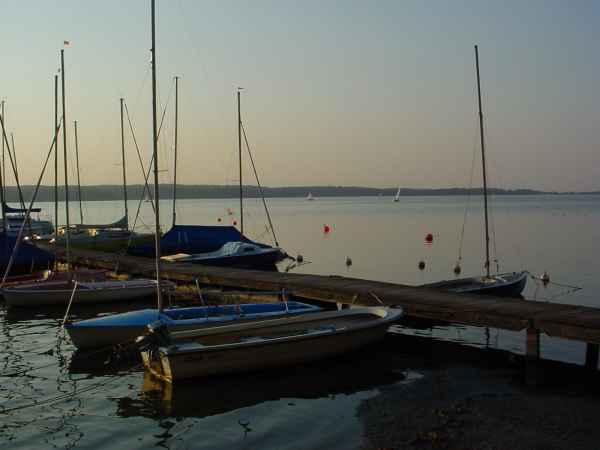 Jetty at Bosau-Kleinneudorf on the lake of Großer Plöner See, Schleswig Holstein, Germany